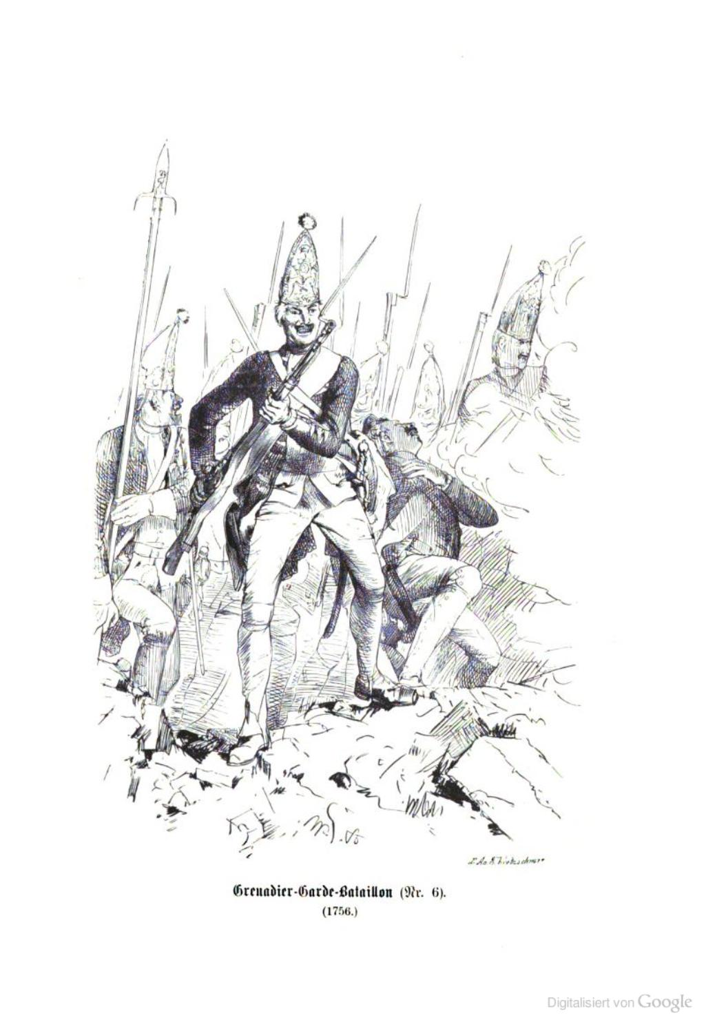 drawing of preussian soldiers around 1756